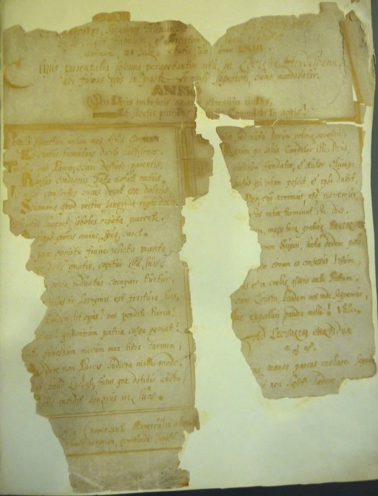 Manuscript from 1653 in the National Library of Norway (signature: Ms.4 744 b Paus), poem in Latin by Povel Pedersson Paus (1625–1682) in memory of his father Peder Povelsson Paus (1590–1653), provost of Upper Telemark. The author was a 4th great-grandfather of Henrik Ibsen. The reconstructed poem is included in the following work: S.H. Finne-Grønn, Slekten Paus (pp. 18–21), Oslo, 1943